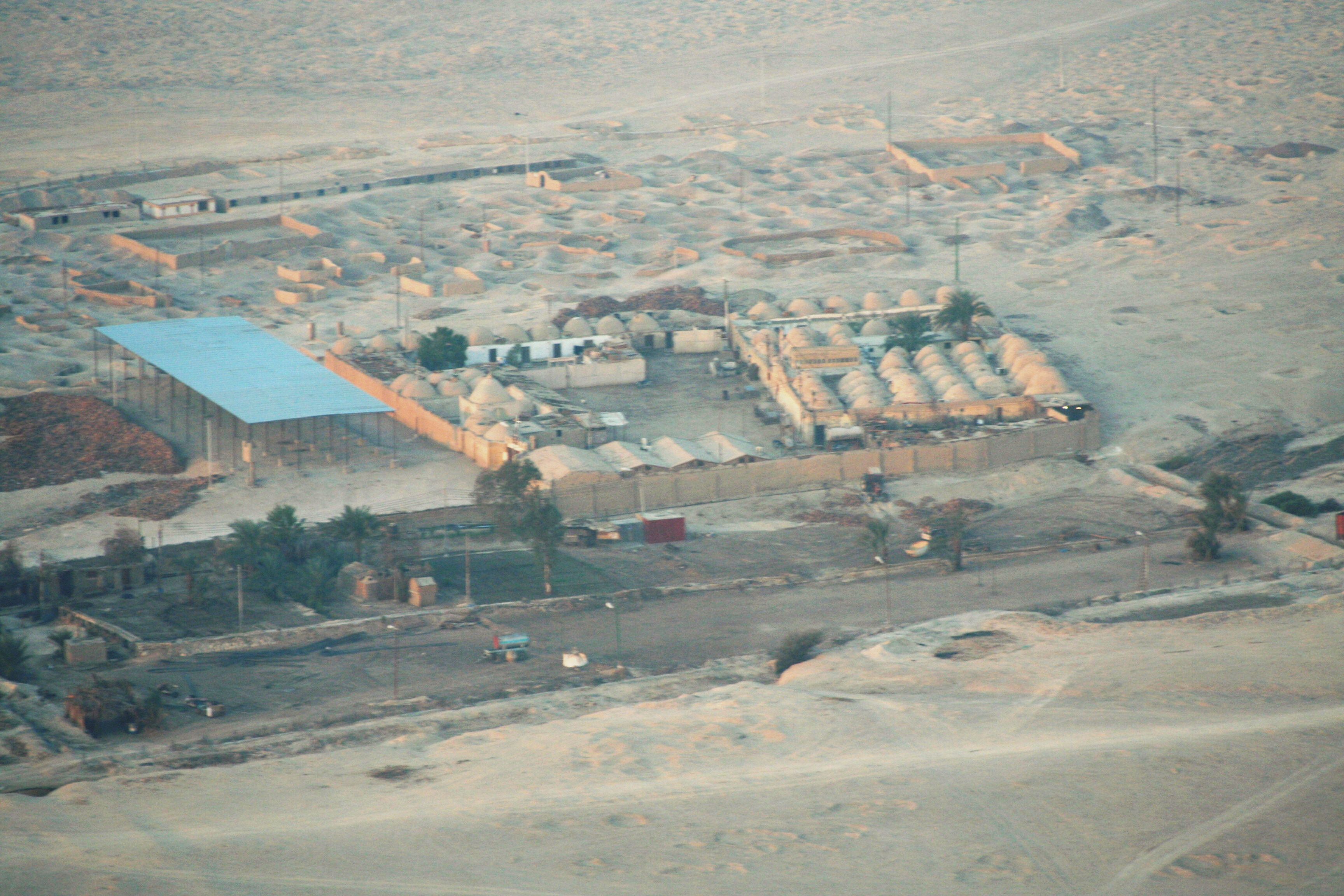 Coptic nunnery nearby Medinet Habu, Egypt